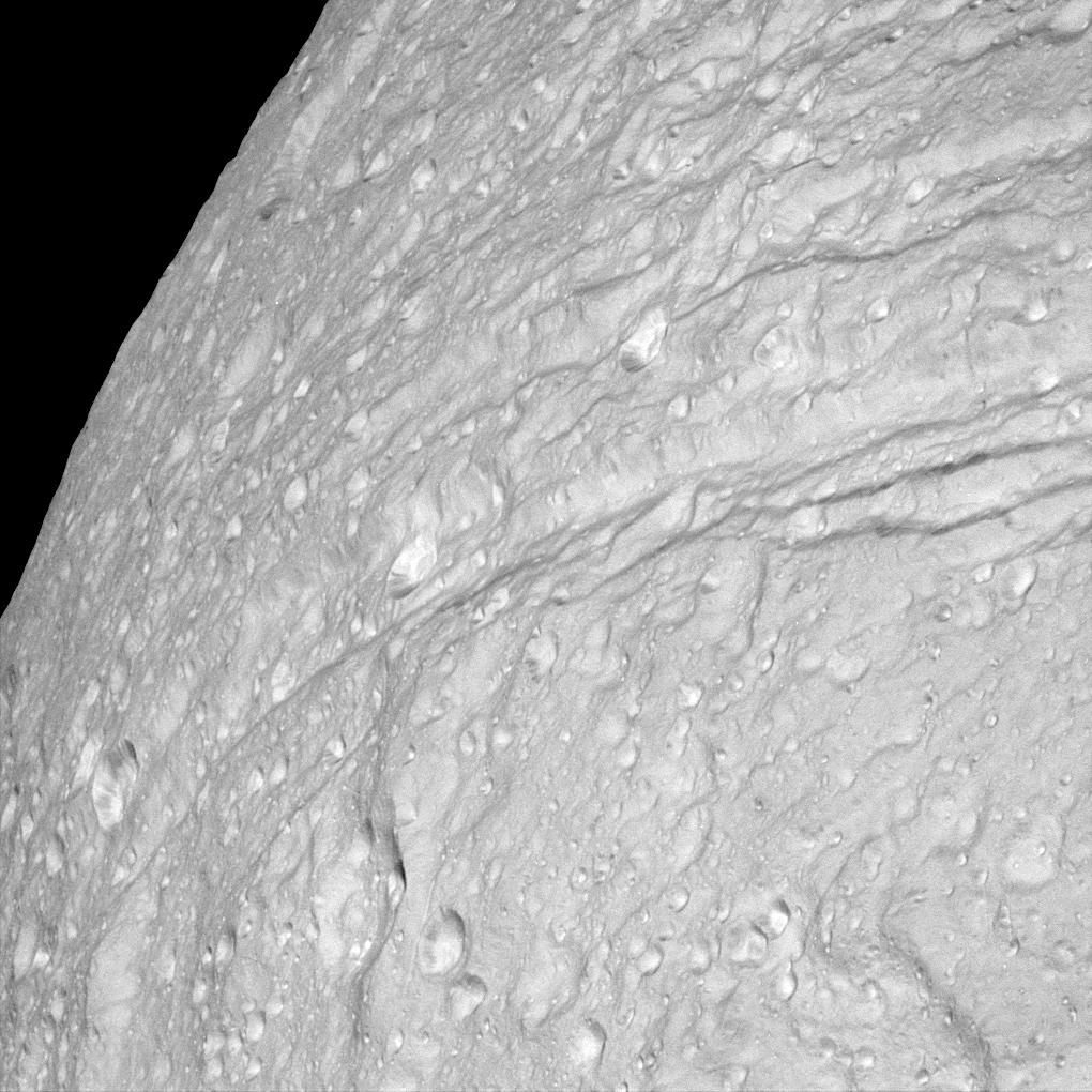 This view of the surface of Saturn's moon Tethys, taken during Cassini's close approach to the moon on Sept. 24, 2005, reveals an icy land of steep cliffs. The view is of the southernmost extent of Ithaca Chasma, in a region not seen by NASA's Voyager spacecraft.